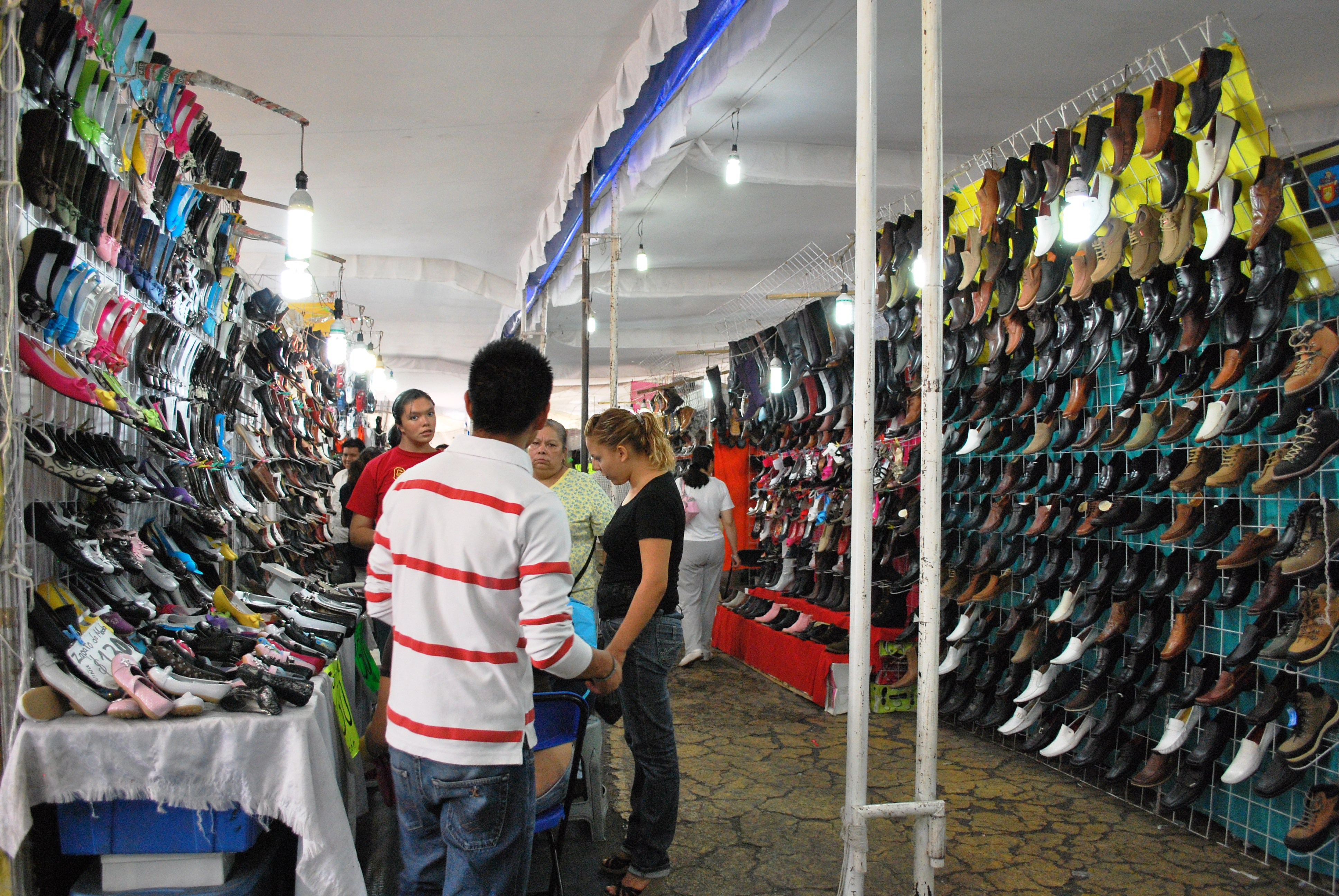 Shoe market in the parking lot of Estadio Azteca in Mexico City